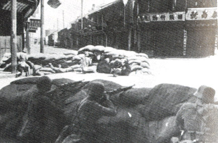 A Chinese outpost overlooking an intersection, Shanghai 1937